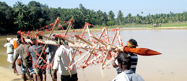 Kinnigoli pukare